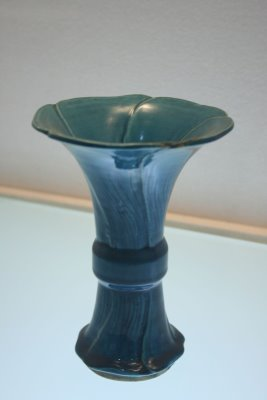 A Chinese Ming Dynasty (1368-1644 AD) porcelain vase from the reign of the Zhengde Emperor (1505-1521 AD).